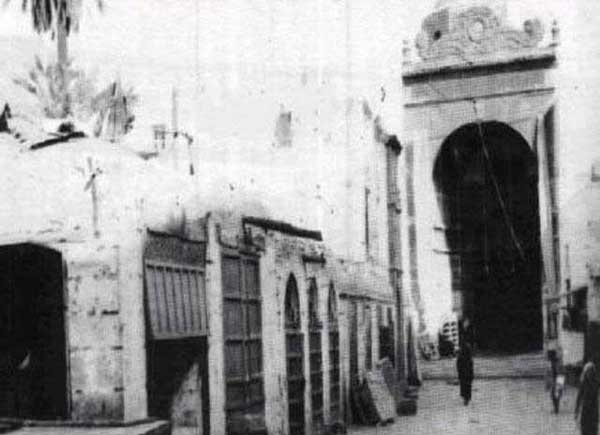 Bani Hashim alley before being destroyed by Wahhabis